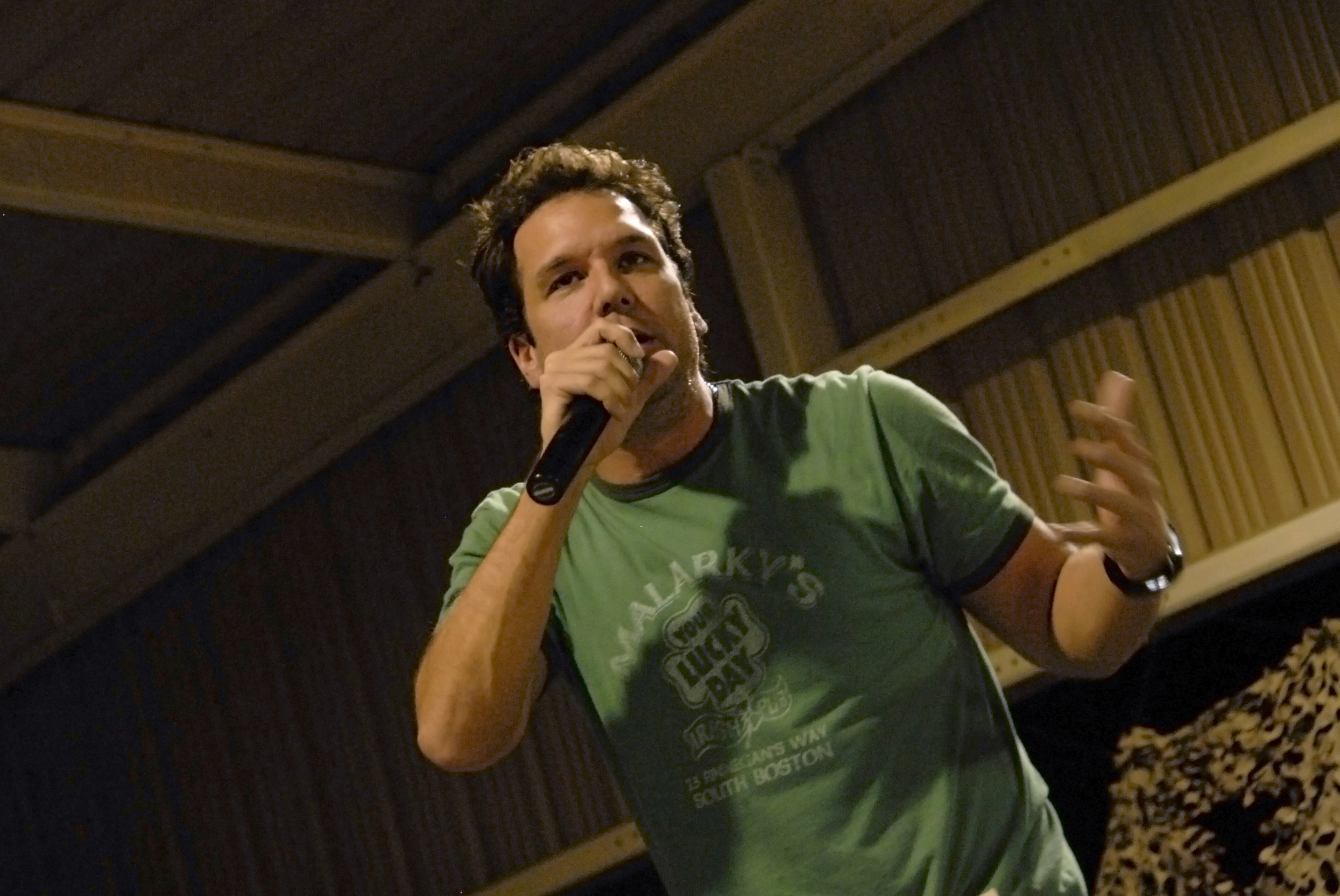 SOUTHWEST ASIA -- Comedian Dane Cook entertains Airmen deployed to the 386th Air Expeditionary Wing during a comedy show May 30, 2008, at an air base in the Persian Gulf Region. Comedians Al Del Bene, Robert Kelly, and Dane Cook are visiting deployed troops throughout the area of responsibility during a five-day United Service Organizations sponsored Combat Comedy Tour. (U.S. Air Force photo/ Staff Sgt. Patrick Dixon)